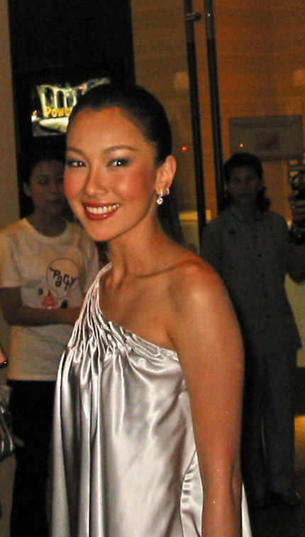 Noon Woranuch (วรนุช วงษ์สวรรค์) at Star Entertainment Awards 2007